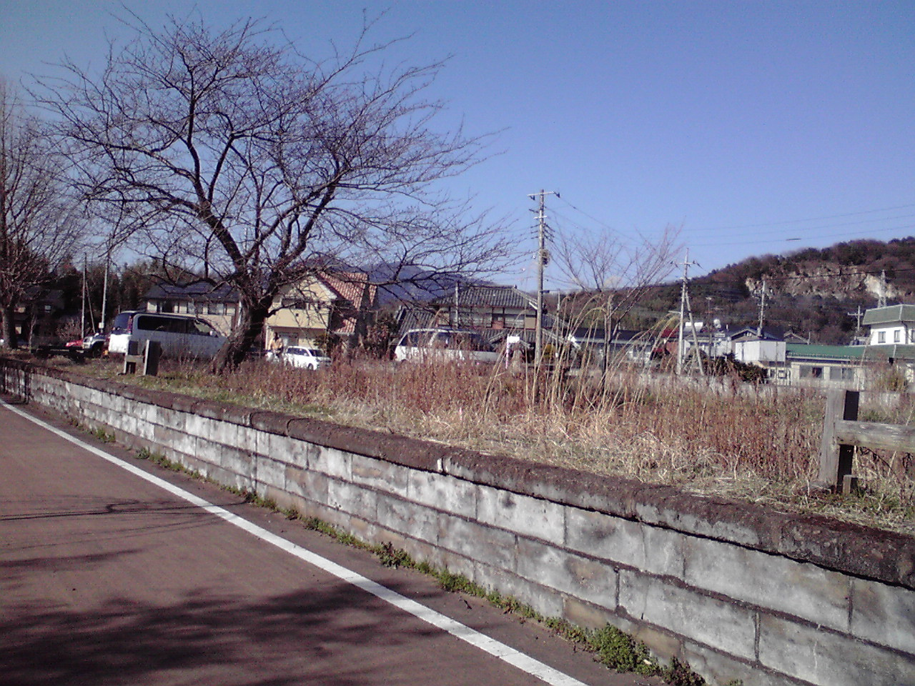 This is a site of Hitachi-Oda station in Japan. This station belonged Tsukuba railway for 69 years.